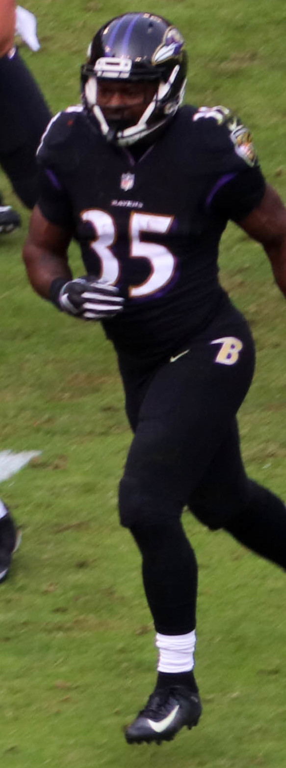 Lamar Jackson of the Baltimore Ravens runs the ball against the Cincinnati Bengals during a 2018 game at M&T Bank Stadium in Baltimore.